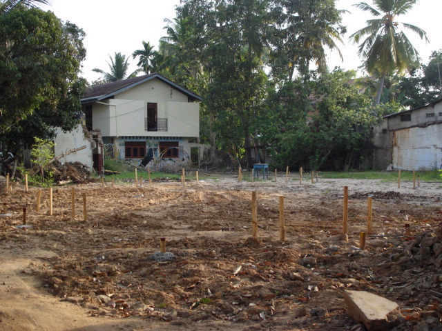 Site before construction of house after December 2004 Tsunami in Matara District of Sri Lanka.